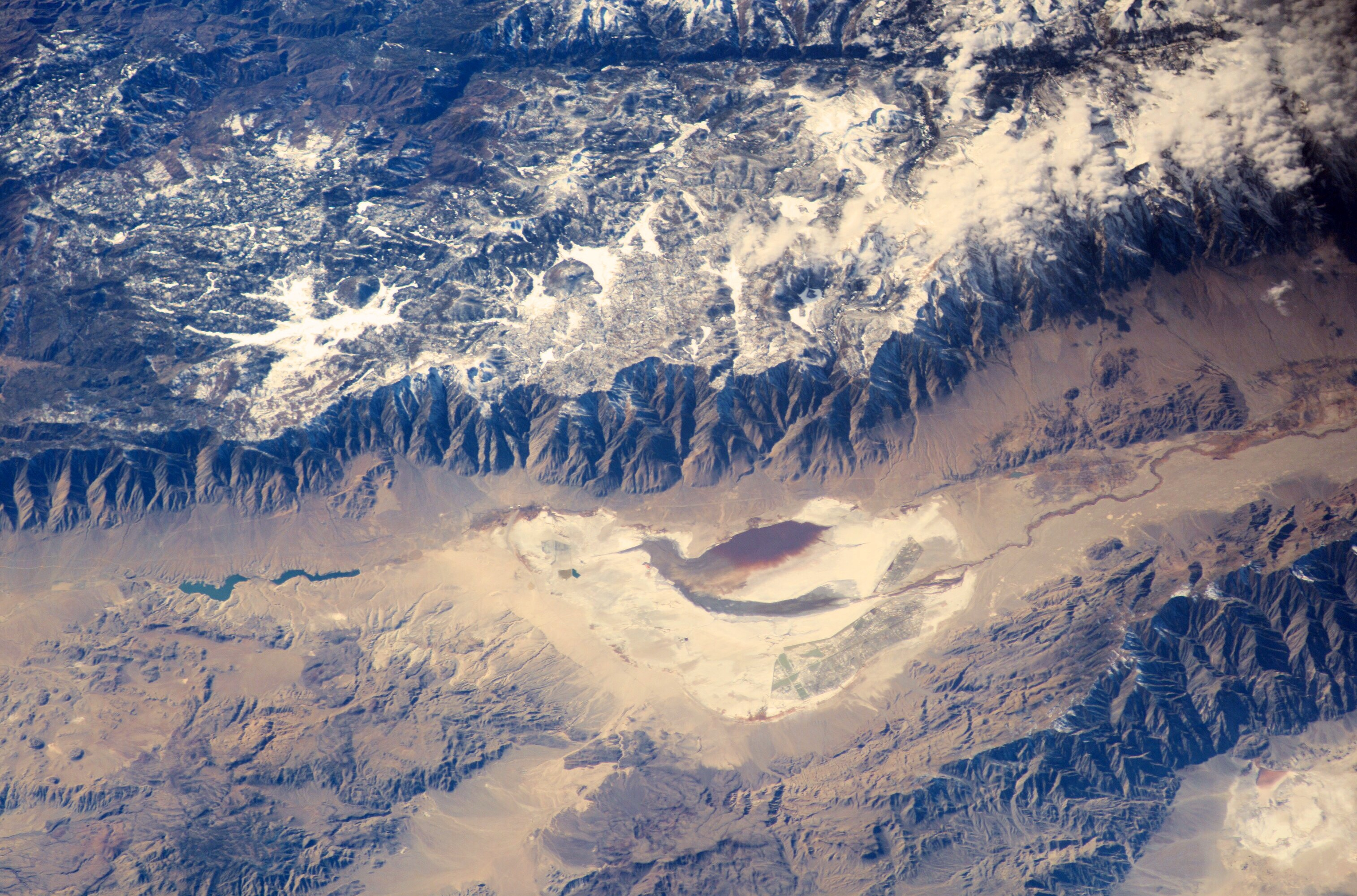 Astronauts aboard the International Space Station looked obliquely down at the steep eastern flank of California’s Sierra Nevada. Even from space the topography is impressive—the range drops nearly 11,000 feet from Mt. Whitney (under cloud), the highest mountain in the lower 48 states (14,494 ft), to the floor of Owens Valley (the elevation of the town of Lone Pine is 3,760 ft). The Sierra Nevada landscape is well known for deep, glacially scoured valleys, like Kern Canyon west of Mt. Whitney. The California landscape changes east of the Sierra, marked by alternating steep desert mountain ranges and valleys. Many of the valleys contain dry lakebeds, remnants of deep lakes that filled the valleys 11,000 years ago, at the end of the last ice age. Owens Lake was a salty lake until 1913, when the Owens River was diverted into the Los Angeles Aqueduct, quickly draining the lake. Today, Owens Lake is a dried salt flat that contains some pooled water following rains. Solar evaporation ponds lie along the northern edge. The bright red color in the wet parts of the lakebed is from the red color of salt-loving bacteria (halobacteria).